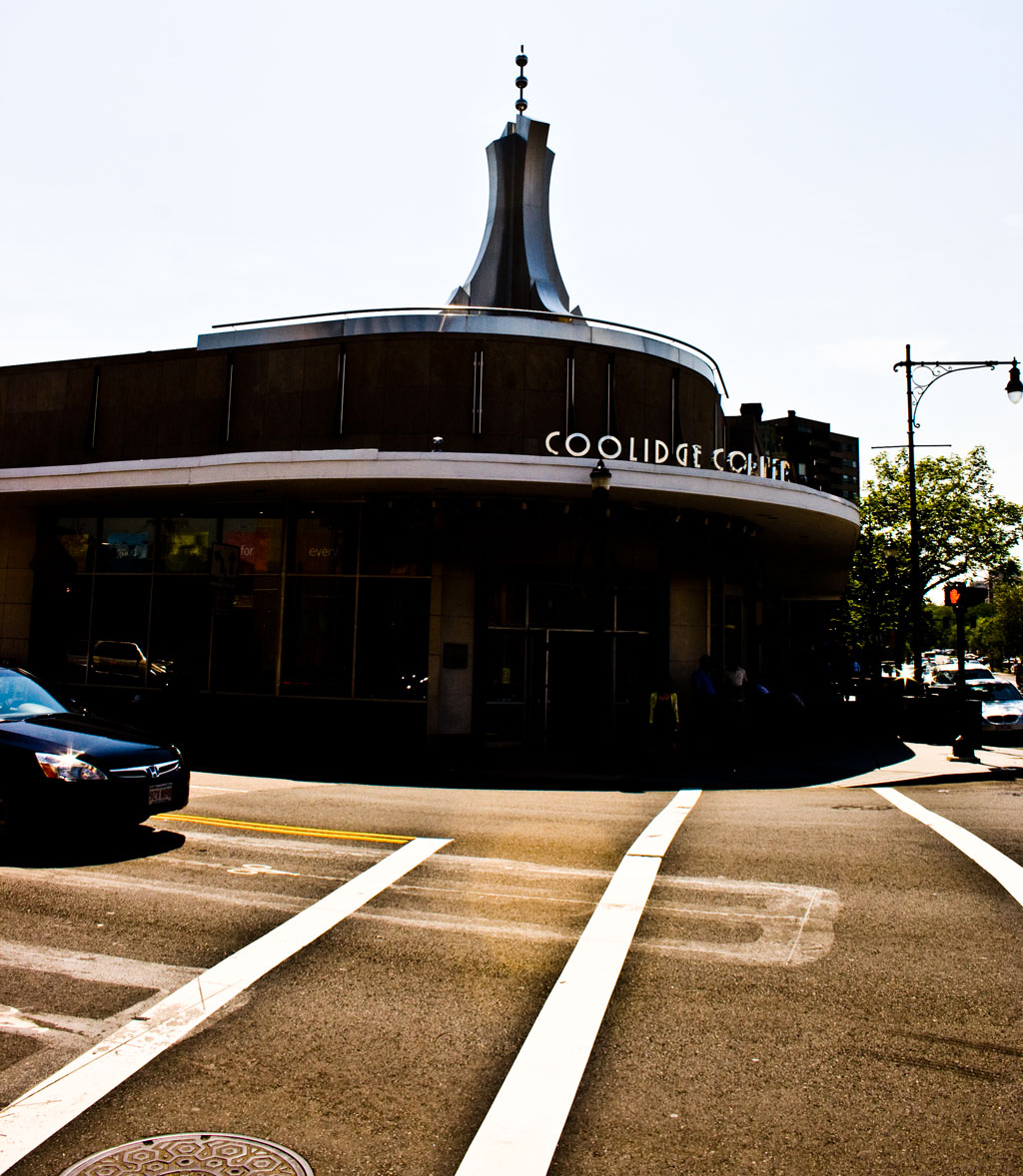 Coolidge Corner, Brookline MA